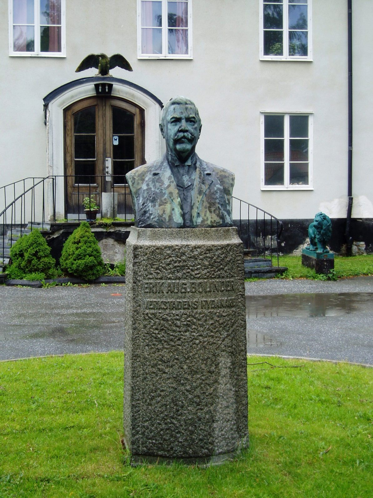 Erik August Bolinder (bust), swedish entrepreneur, Kallhäll, Järfälla municipality